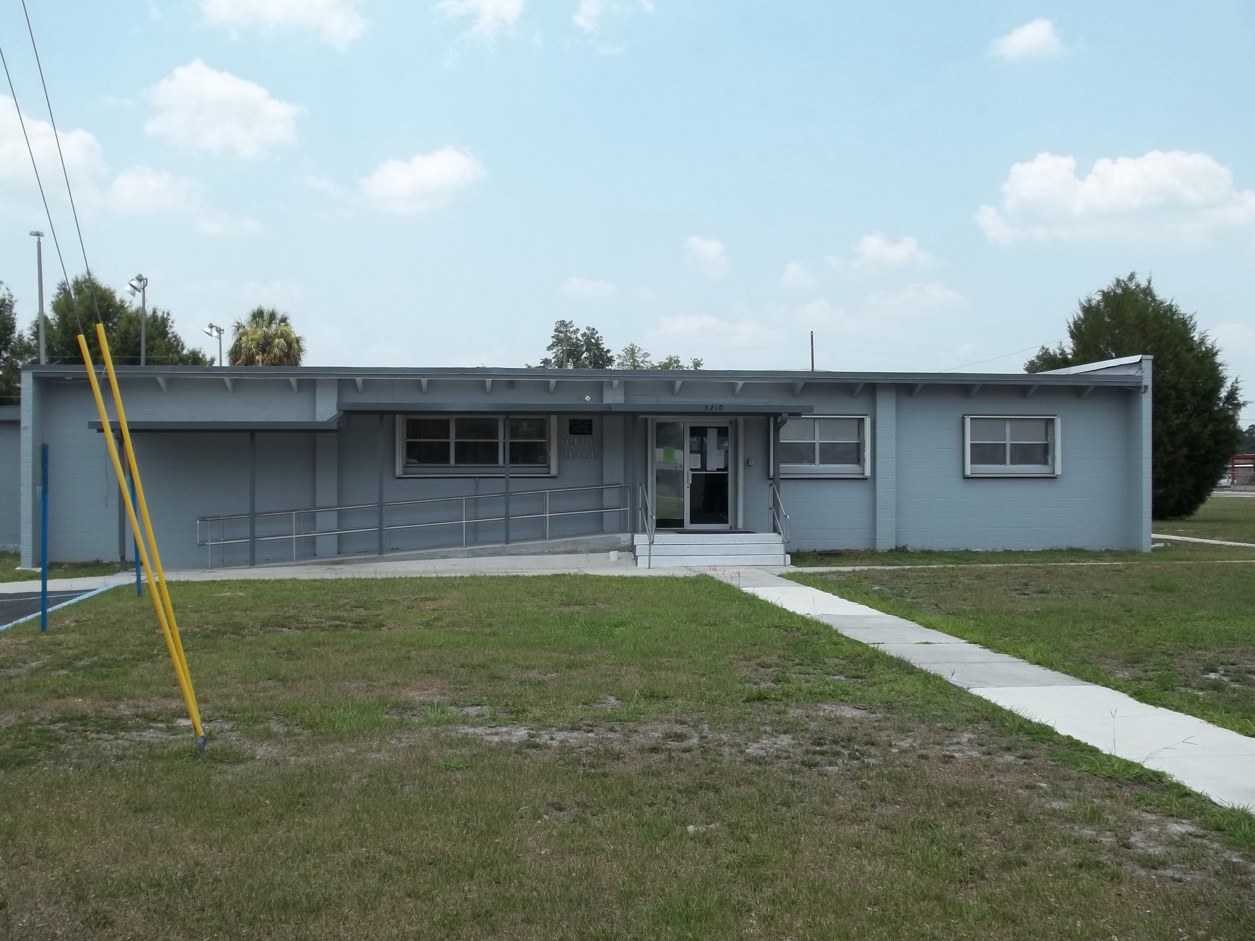 Zolfo Springs, Florida: City hall